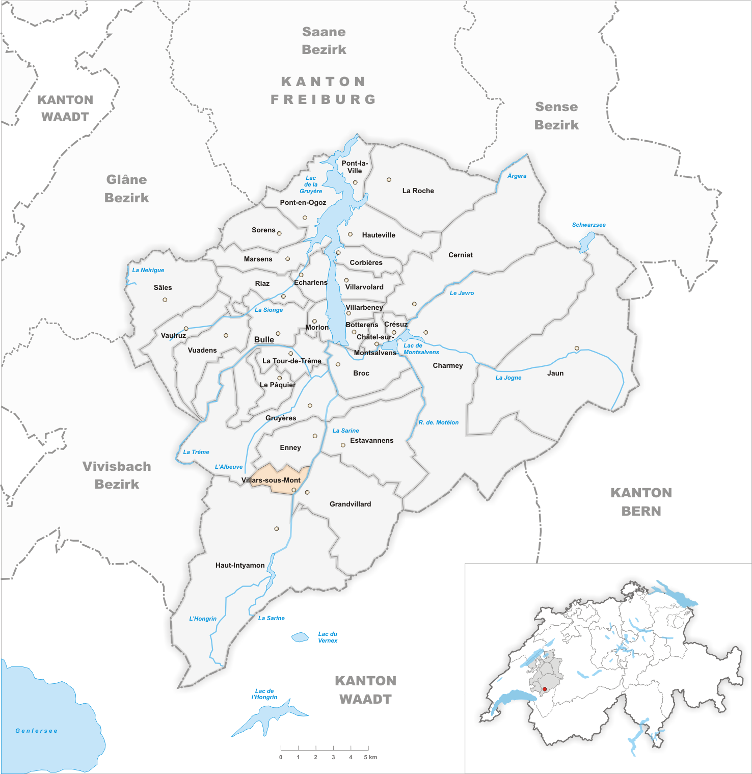 Municipality Villars-sous-Mont Artist: Tschubby